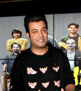 Varun promoting Chhichhore in 2019